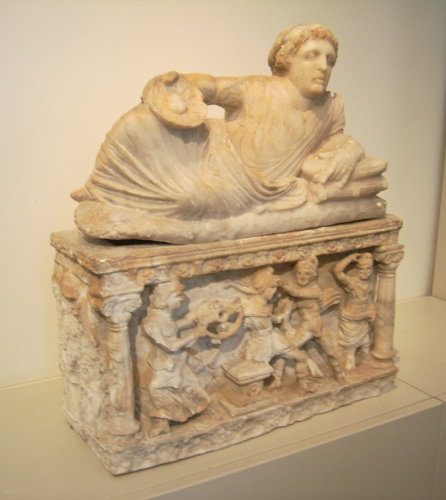 Etruscan alabaster cinerary urn.